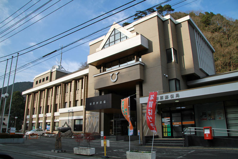 Hinohara Village Office, Hinohara, Tokyo, Japan